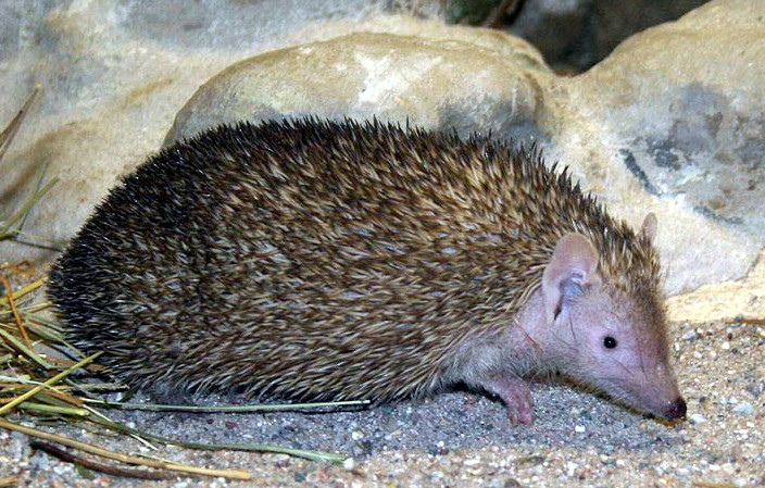 Echinops telfairi